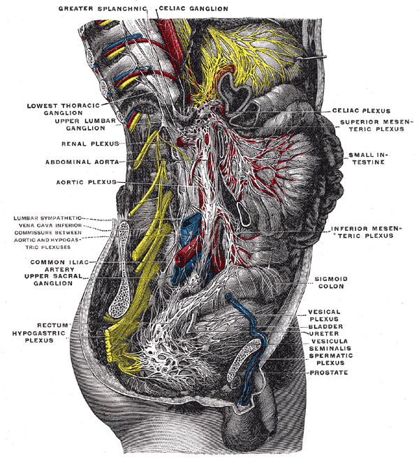 Lower half of right sympathetic cord. (Testut after Hirschfeld.)